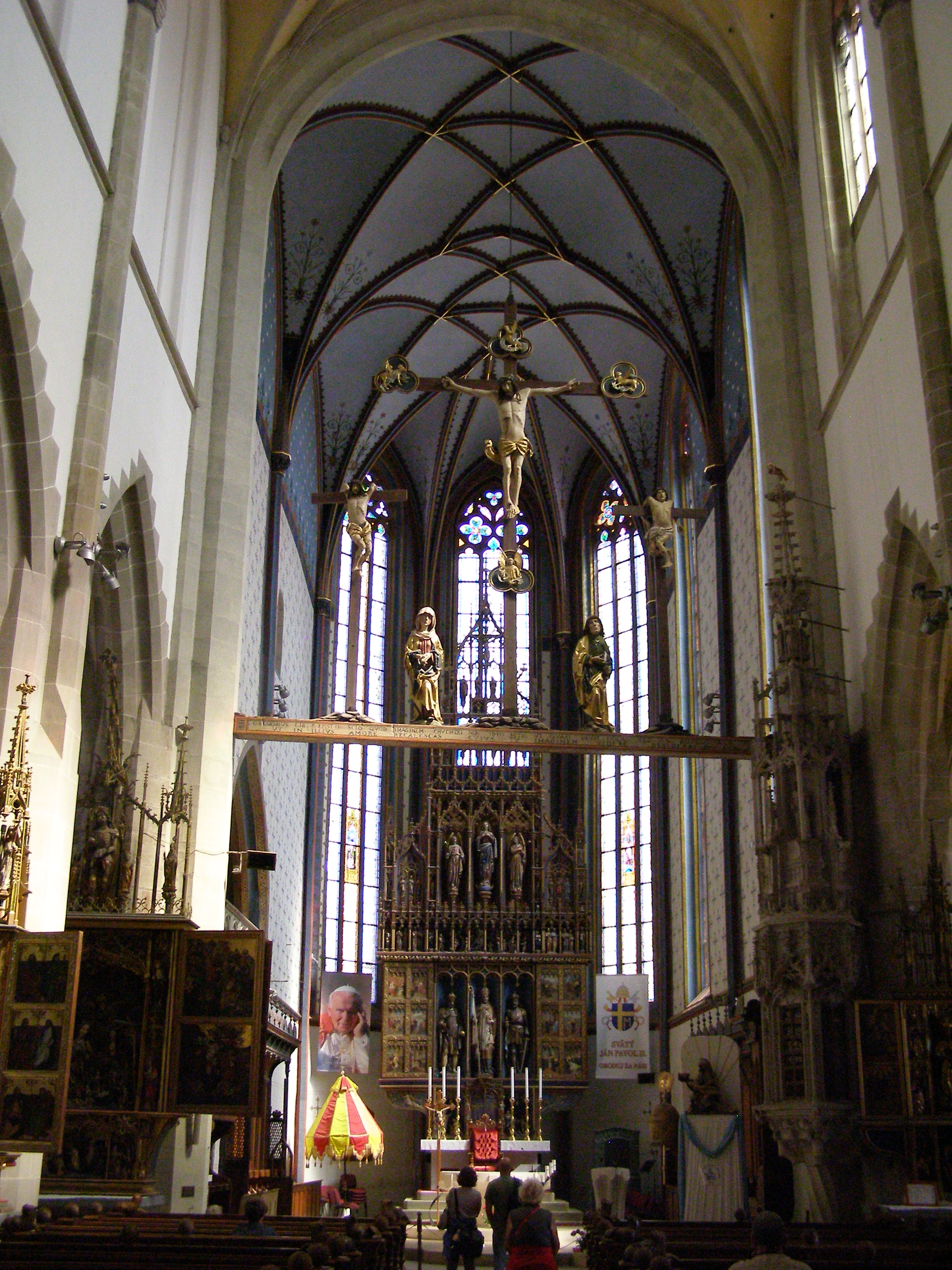 Bardejov - St. Giles' basilica